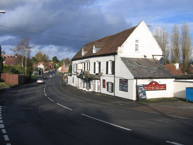 The Crown Inn, Catshill